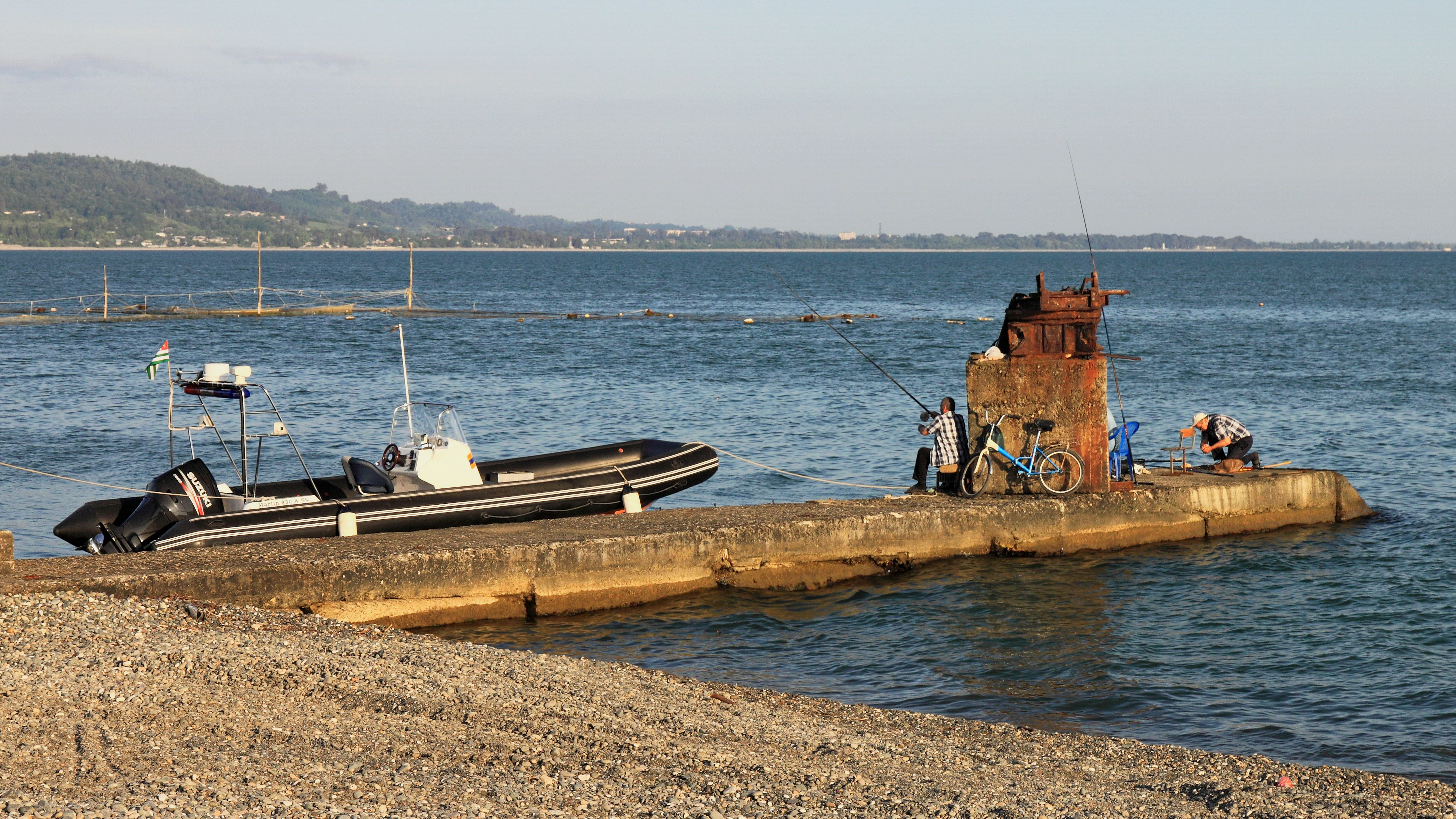 Embankment. Sukhumi, Abkhazia.